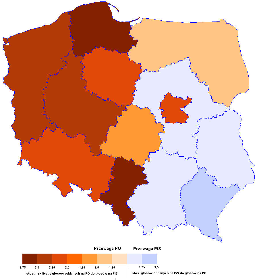 European Parliament election, 2009 (Poland) - results by constituencies